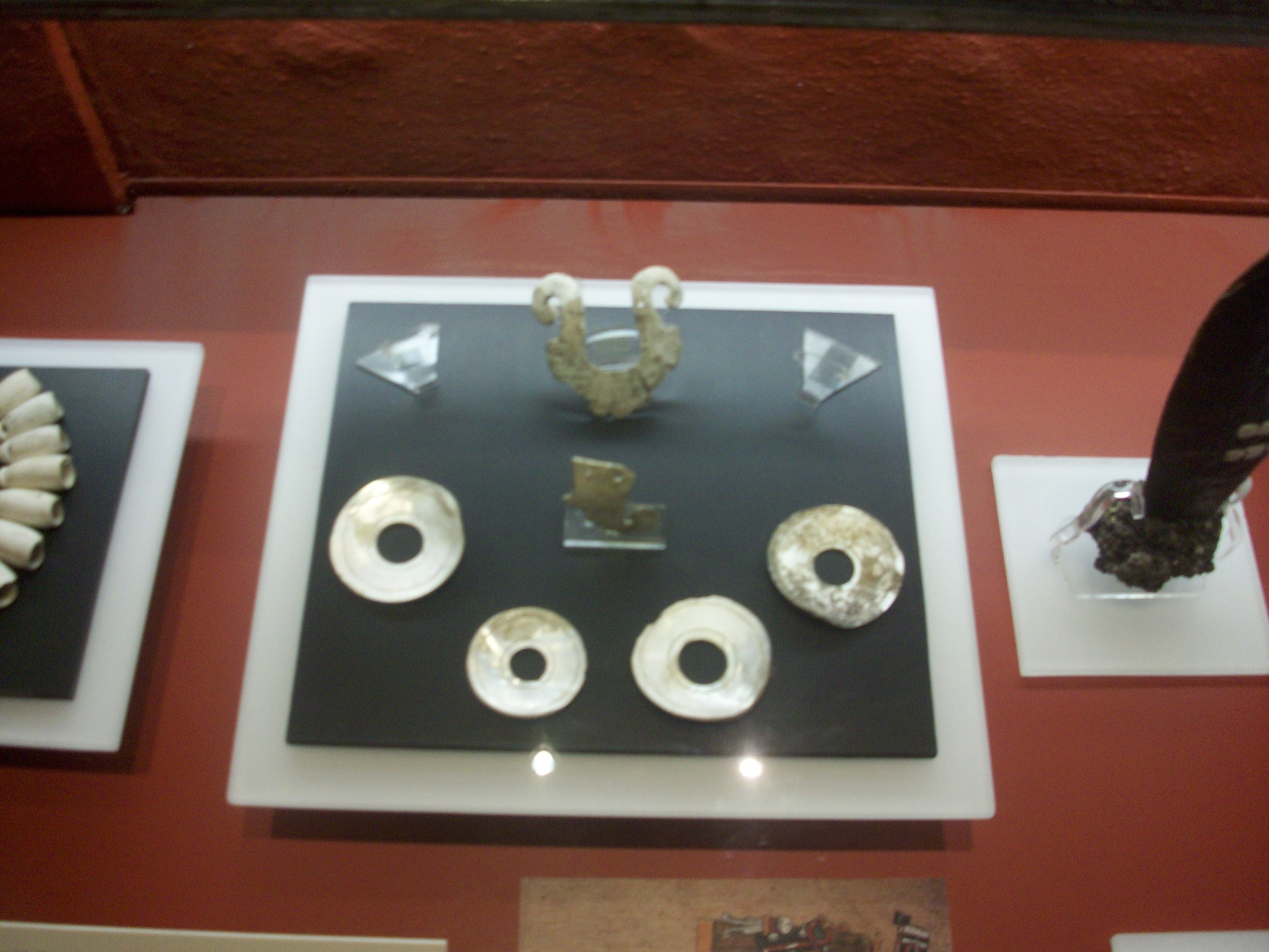 Piezas de oro prehispánicas encontradas en el Templo Mayor de Tenochtitlán, actualmente en exhibición en el Museo del Templo Mayor en la Ciudad de México.